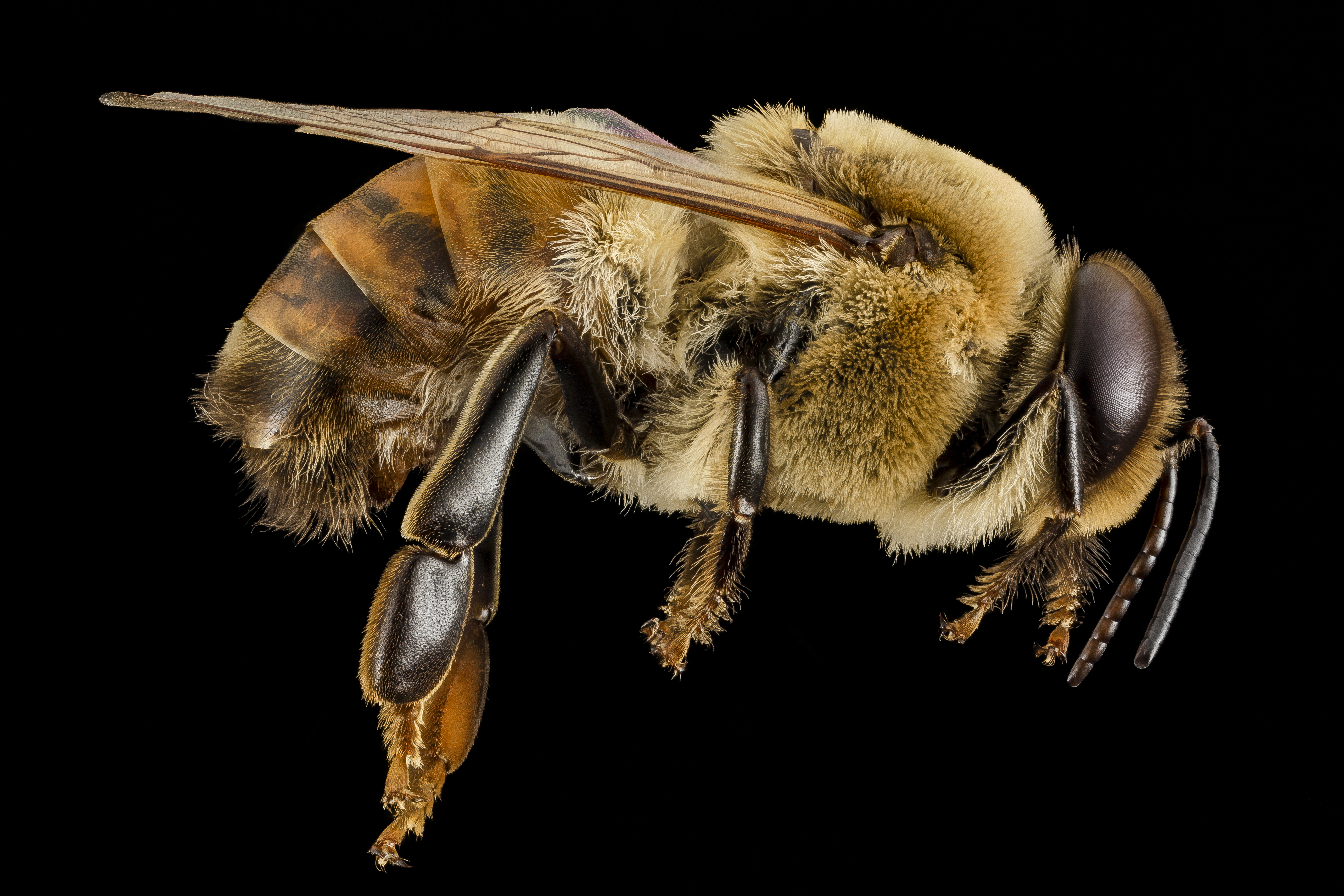 DRONE! Apis mellifera male plundered from Dennis vanEngelsdorp's Lab. Washed and blown dried, buff. Photo by Sue Boo, interlab spy. 02:20, 6 July 2014 (UTC)02:20, 6 July 2014 (UTC) 0 02:20, 6 July 2014 (UTC)02:20, 6 July 2014 (UTC) All photographs are public domain, feel free to download and use as you wish. Photography Information: Canon Mark II 5D, Zerene Stacker, Stackshot Sled, 65mm Canon MP-E 1-5X macro lens, Twin Macro Flash in Styrofoam Cooler, F5.0, ISO 100, Shutter Speed 200 Further in Summer than the Birds Pathetic from the Grass A minor Nation celebrates Its unobtrusive Mass. No Ordinance be seen So gradual the Grace A pensive Custom it becomes Enlarging Loneliness. Antiquest felt at Noon When August burning low Arise this spectral Canticle Repose to typify Remit as yet no Grace No Furrow on the Glow Yet a Druidic Difference Enhances Nature now -- Emily Dickinson Useful Links to the Techniques We Use: Basic USGSBIML set up: USGSBIML Photoshopping Technique: Note that we now have added using the burn tool at 50% opacity set to shadows to clean up the halos that bleed into the black background from "hot" color sections of the picture. PDF of Basic USGSBIML Photography Set Up: ftp://ftpext.usgs.gov/pub/er/md/laurel/Droege/How%20to%20Take%20MacroPhotographs%20of%20Insects%20BIML%20Lab2.pdf Google Hangout Demonstration of Techniques: or Excellent Technical Form on Stacking: Contact information: Sam Droege 301 497 5840